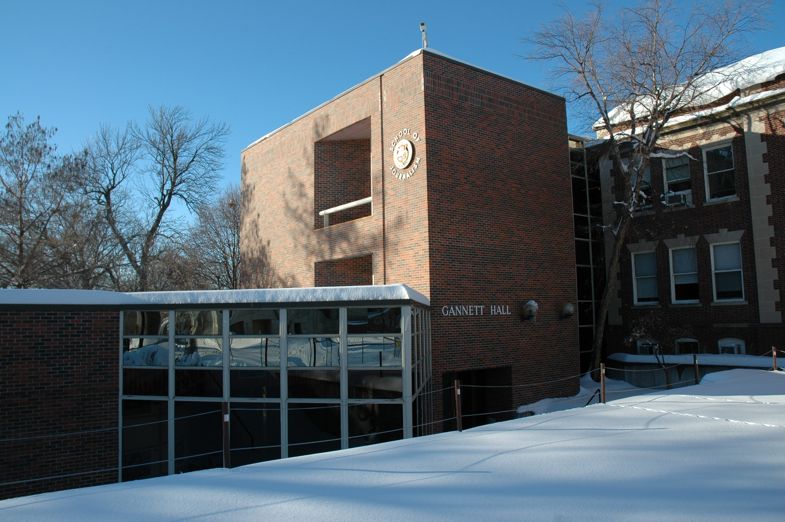 Gannett Hall.